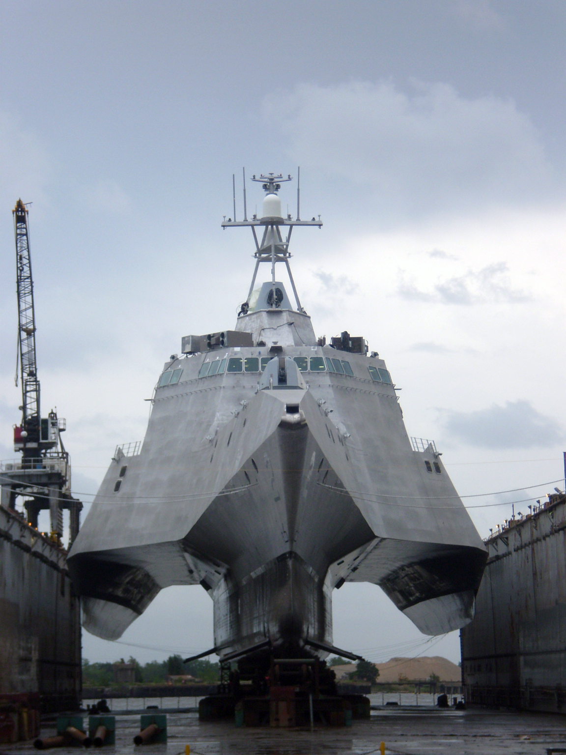 080428-N-3625R-001 MOBILE, Ala. (May 28, 2008) The littoral combat ship pre-commissioning unit Independence (LCS 2) is the second ship in a new design of next-generation combat vessel for close-to-shore operations. The ship will have a crew of less than 40 Sailors and will be able to reach a sustained speed of more than 50 knots. The larger flight deck will accommodate 2 SH-60 Sea Hawk helicopters or one CH-53-class helicopter. (U.S. Navy Photo/Released)